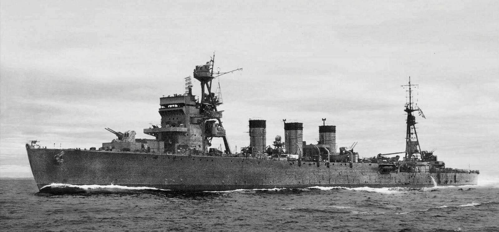 Japanese light cruiser Isuzu after modification at Mitsubishi Yokohama in 1944.